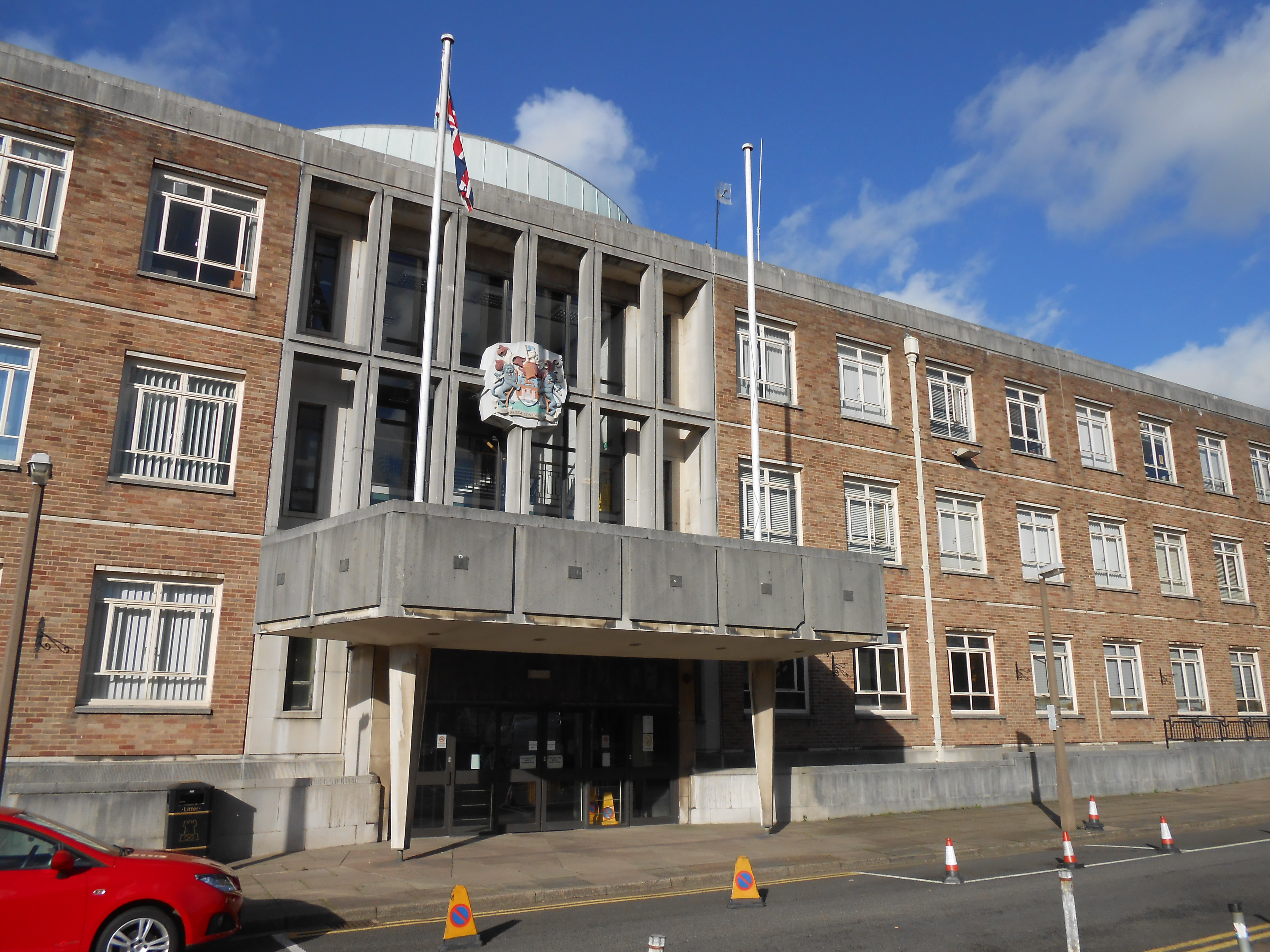 Civic Offices, Merrial Street, Newcastle-under-Lyme, Staffordshire, England.